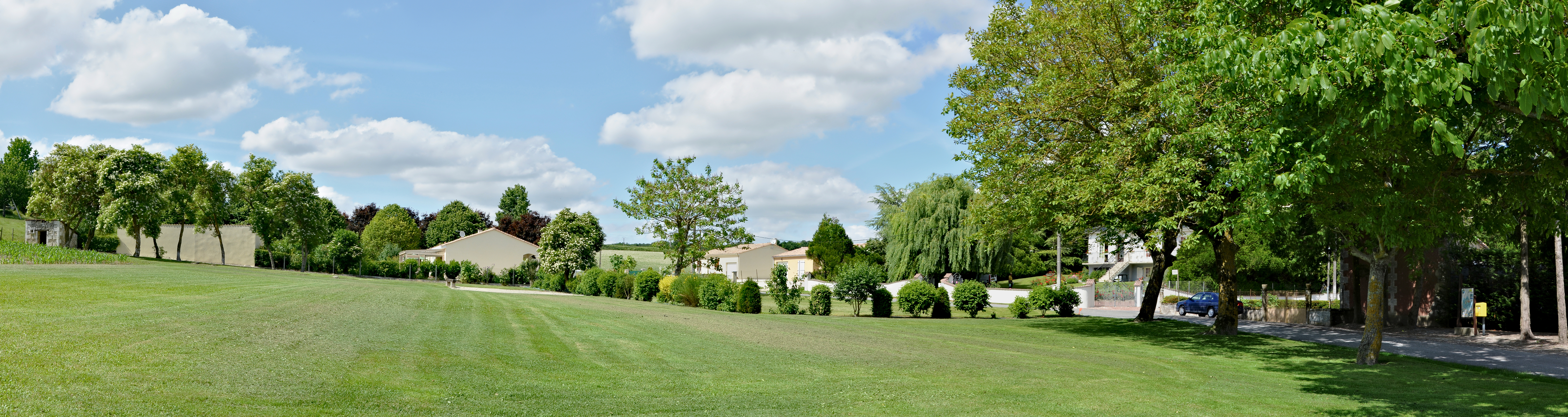 Common lawn near the road D 124, village of Mainfonds, Charente, France.